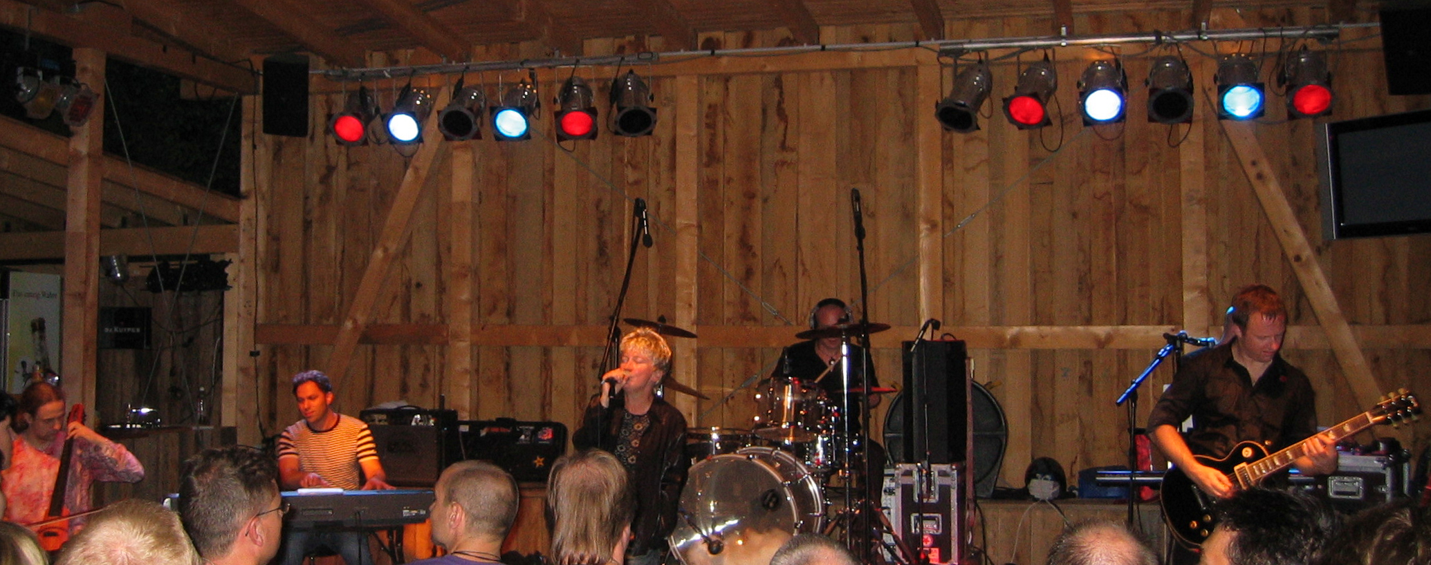 Anne Clark, concert on July 28, 2008 in Dortmund, Germany